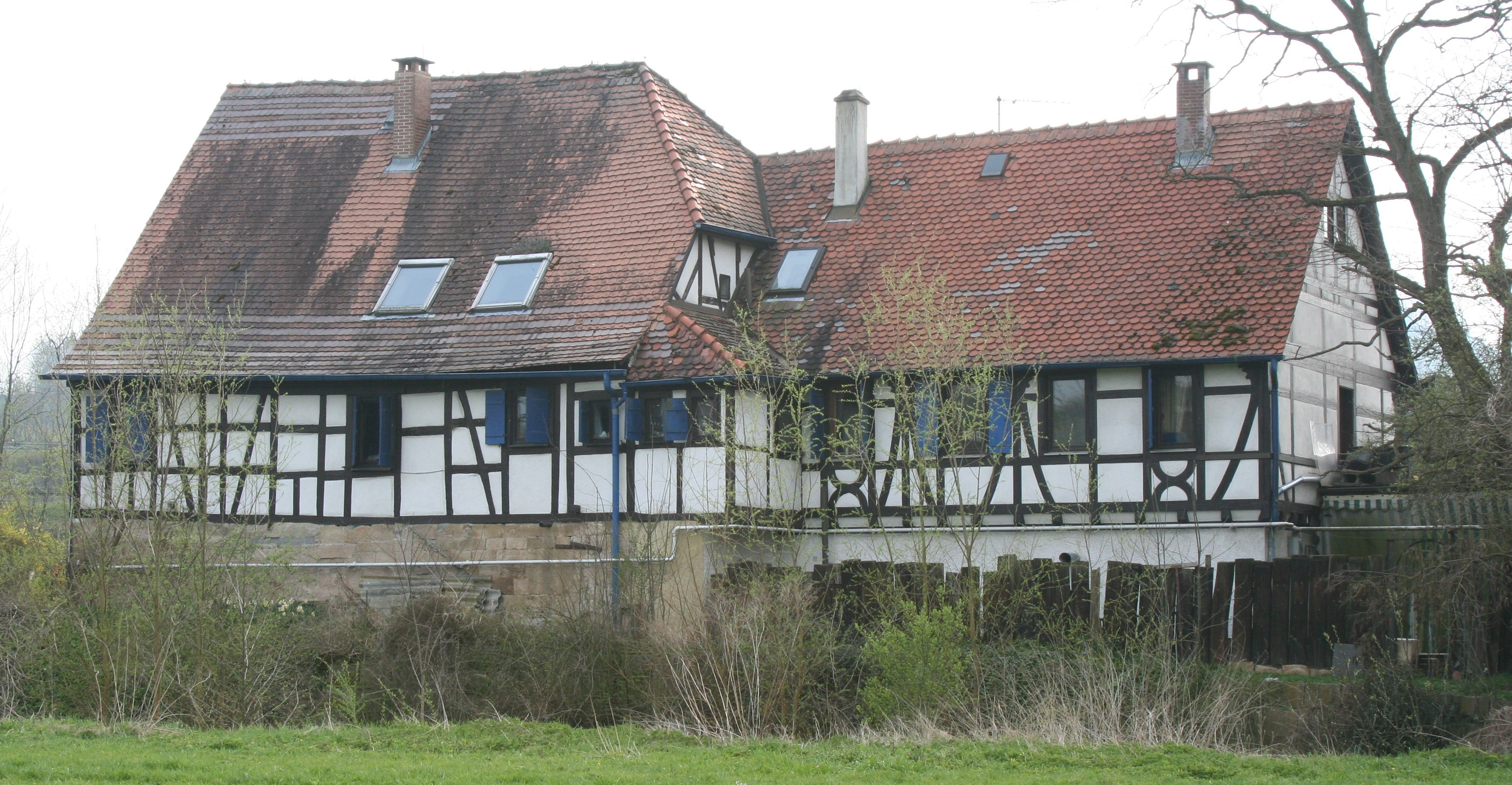 The Hasenmühle mill at the Sulm river near Weinsberg (west of the Autobahn crossing).